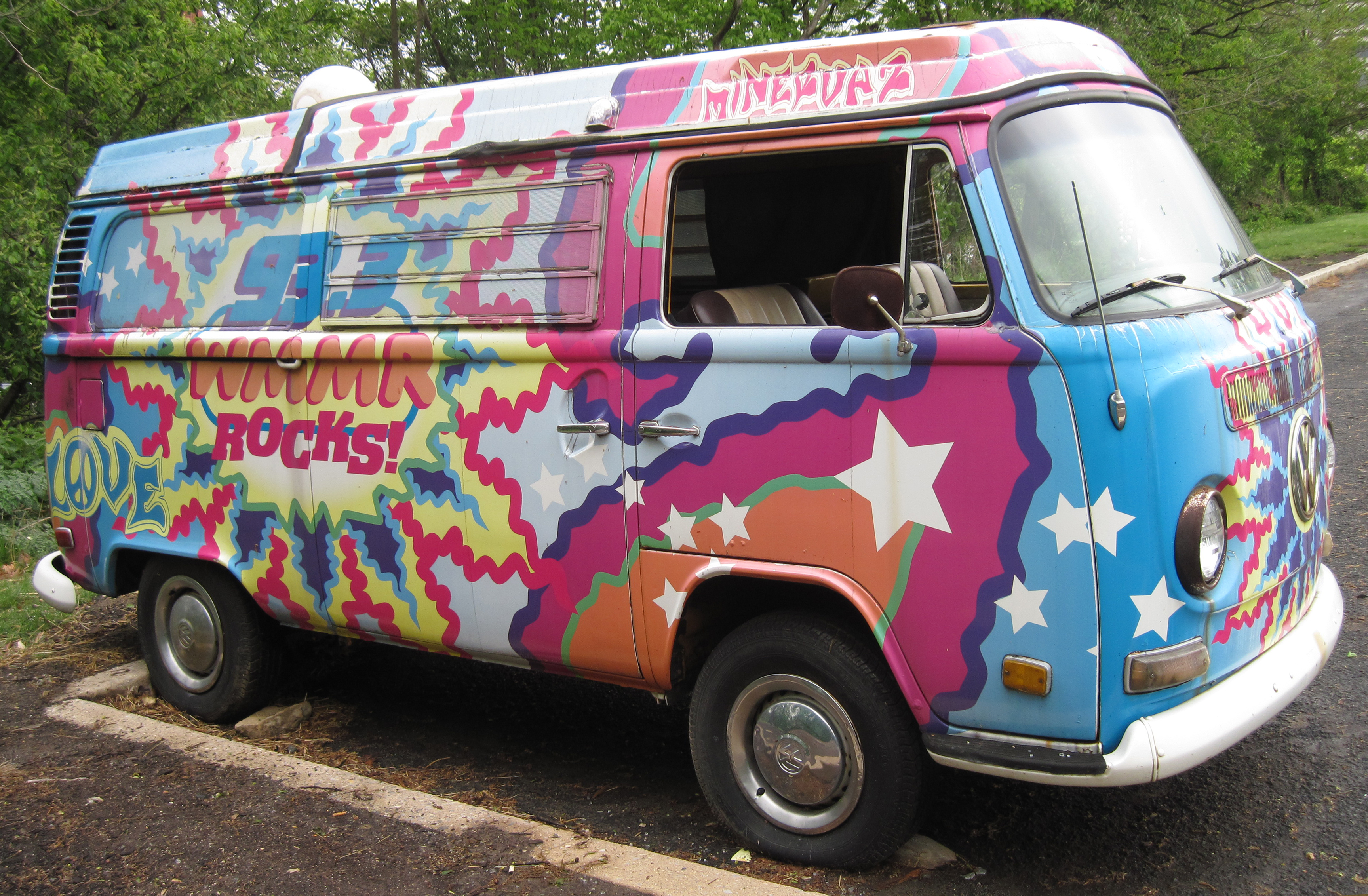 An angled view of the 1972 VW micro-bus Type 2 (T2) Westfalia named "Minerva 2" that was given to Pierre Robert by his radio station 93.3 WMMR during his 20th anniversary party.